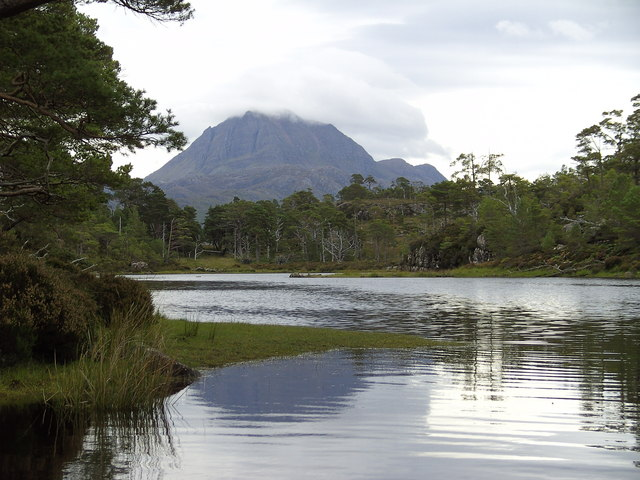 Loch on Eilean Sùbhainn, an island on Loch Maree. The water level may have been high as it was possible to canoe into the island from the main loch. The mountain beyond is Slioch.